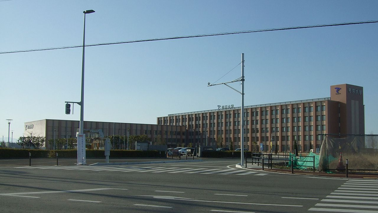 Teikyo University Fukuoka Campus, Omuta City, Fukuoka, Japan.